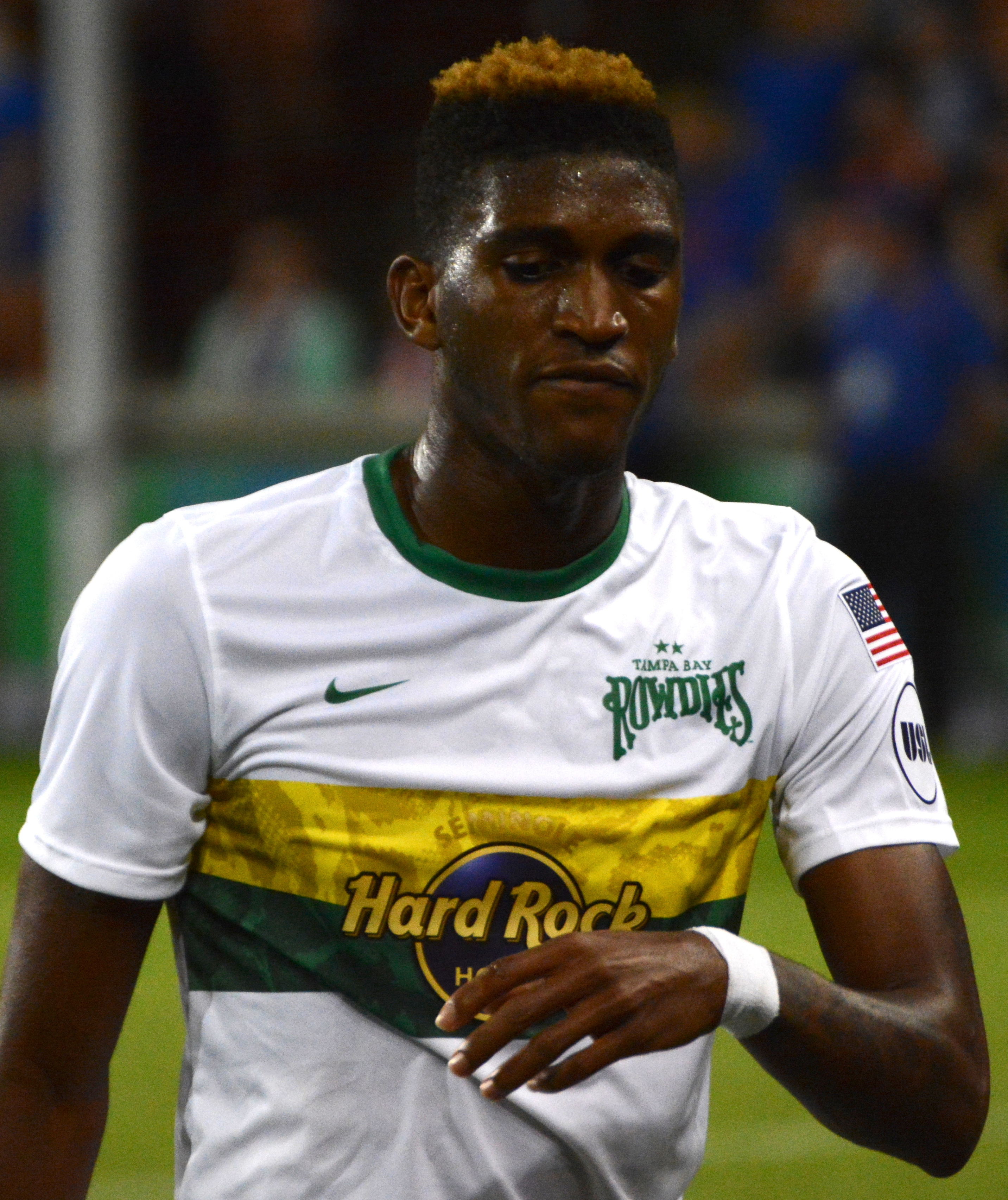 Damion Lowe Taken during a match between FC Cincinnati and Tampa Bay Rowdies at Nippert Stadium in Cincinnati, USA on April 19, 2017.